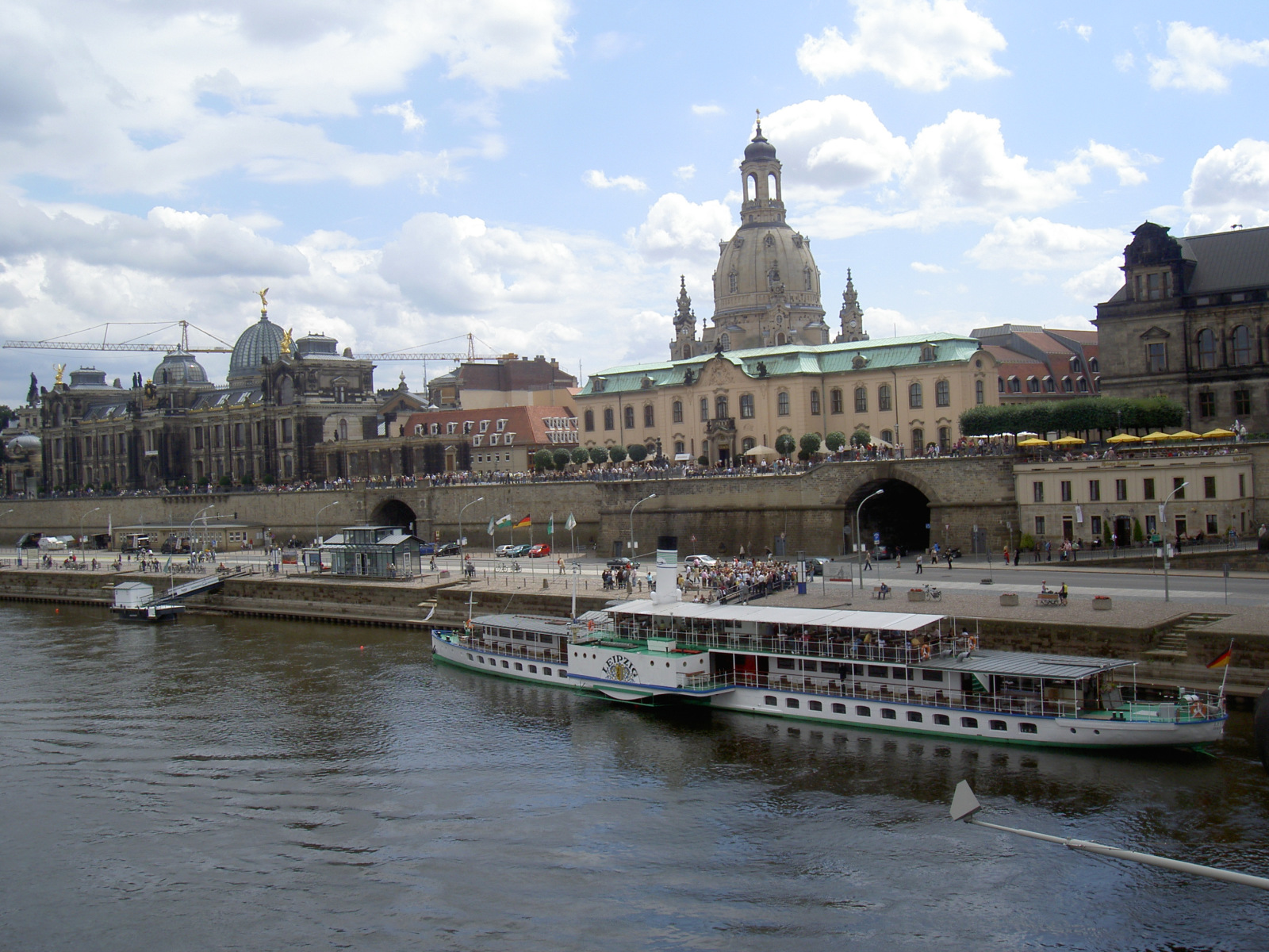 View from the Augustsbridge to the historic centre of Dresden during the city festival in 2008.